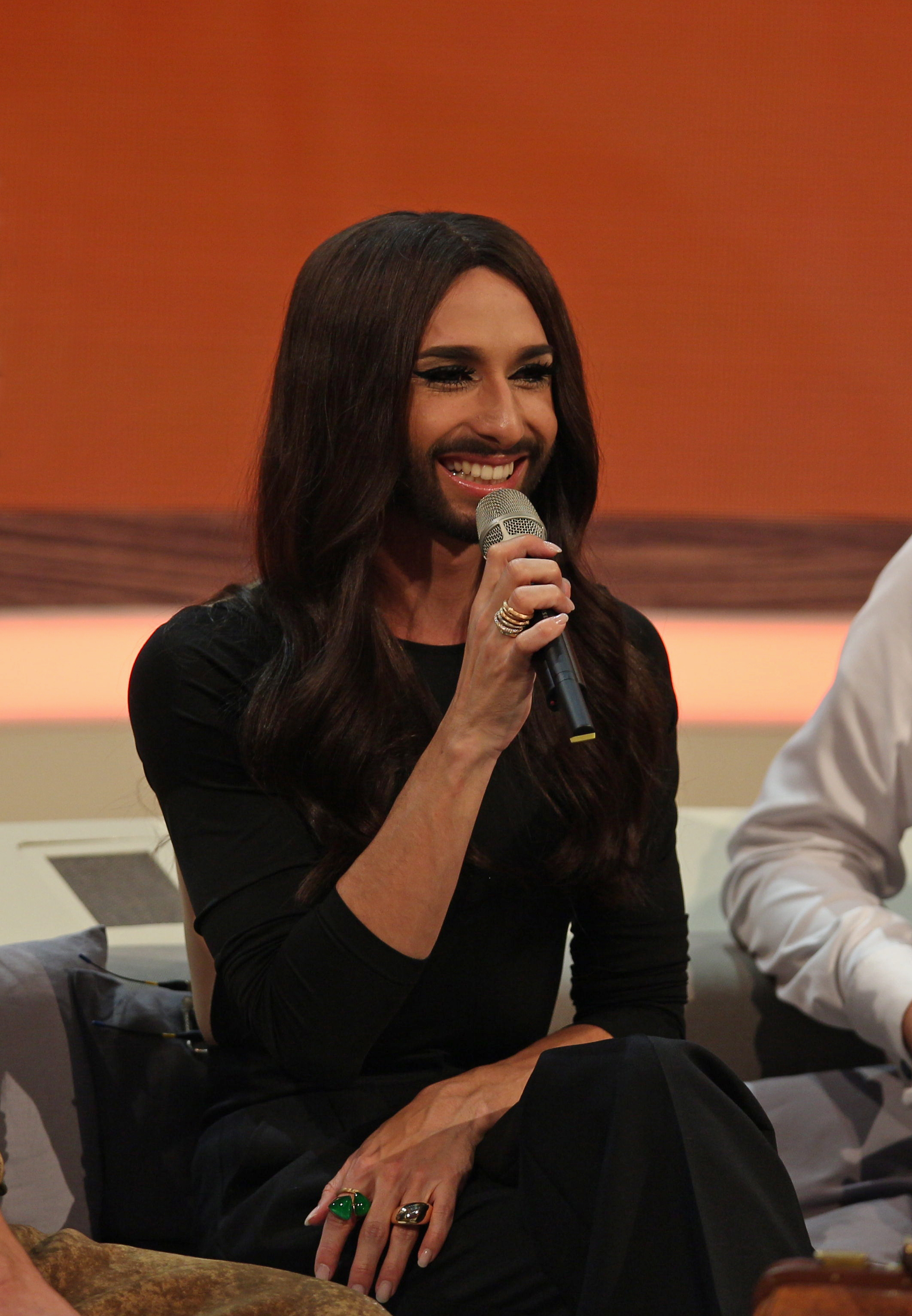 Wetten, dass.. ? 214. show in Graz, 8. Nov. 2014 Conchita Wurst at 214. Wetten, dass.. ? show in Graz, 8. Nov. 2014